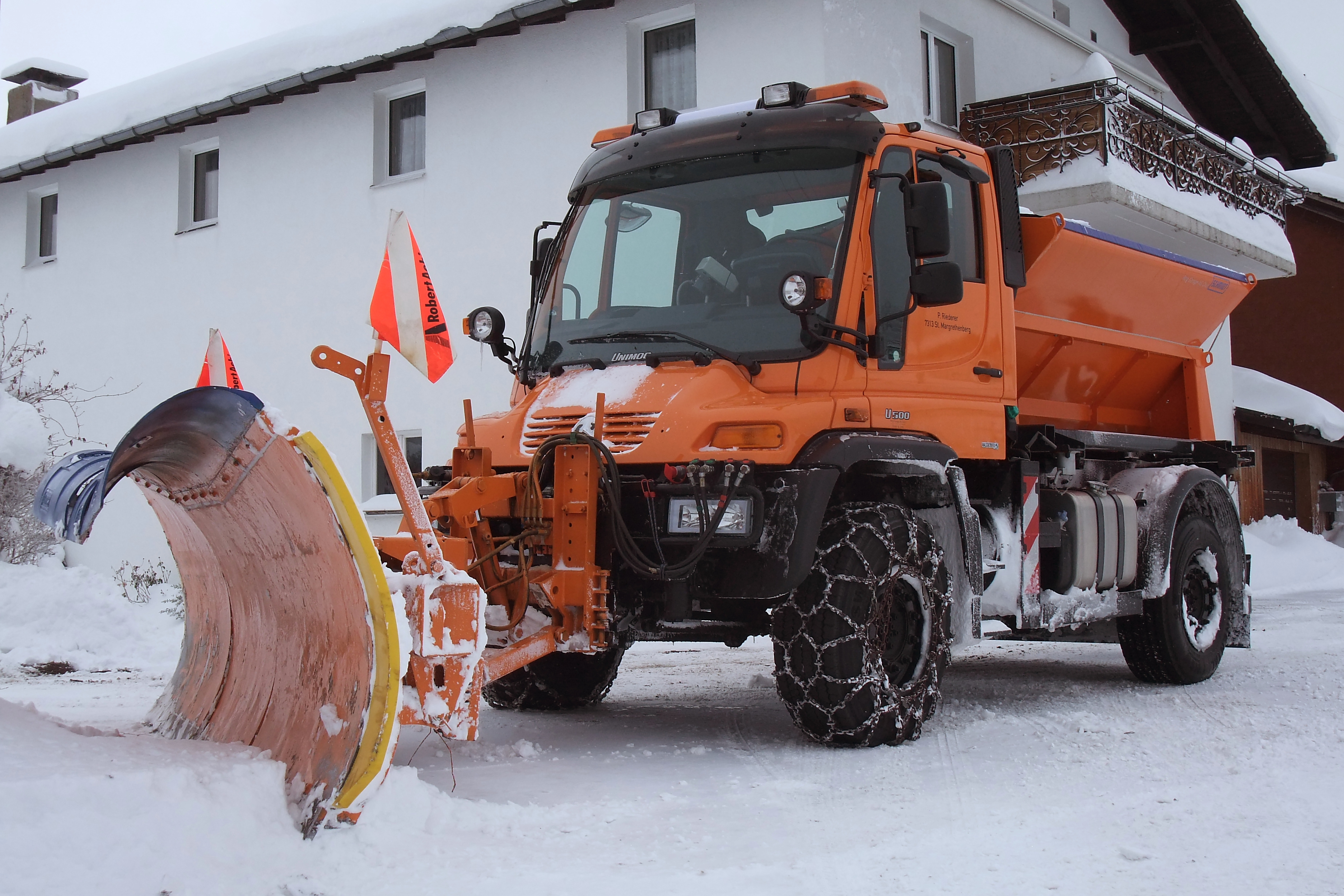 St. Margrethenberg Unimog Snowplow. In winter the road to St. Margrethenberg is pretty challenging. Over a distance of 1.8 km on the last part, there must be overcome a height difference of 253 meters. That's an average gradient of 14 %. With his Unimog U500 (286 HP, 16t total weight) does Peter the perfect maintenance of this stretch of road. Switzerland, Dec 11, 2012.